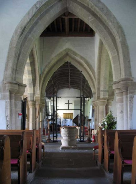 St Illtud, Llantwit Major, Glamorgan, Wales - West end